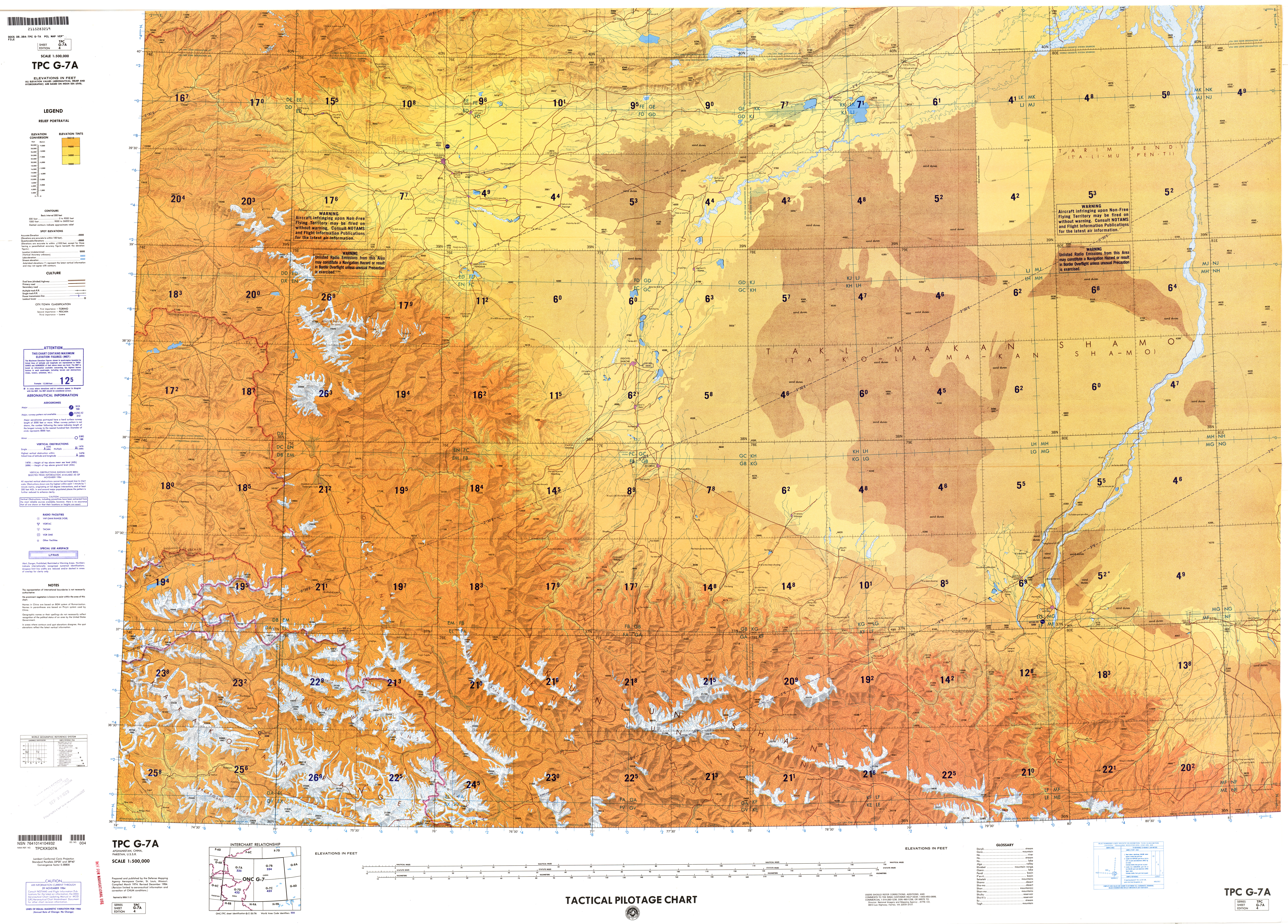 Tactical Pilotage Chart Series - World 1:500,000 Scale